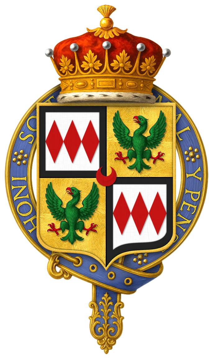 Coat of arms of Edward Montagu, 2nd Earl of Manchester, KG